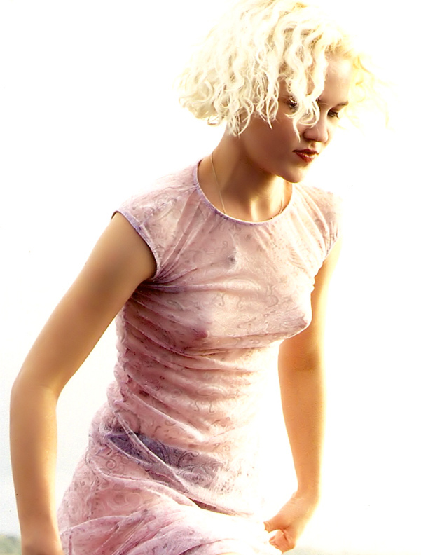 Young woman in transparent dress